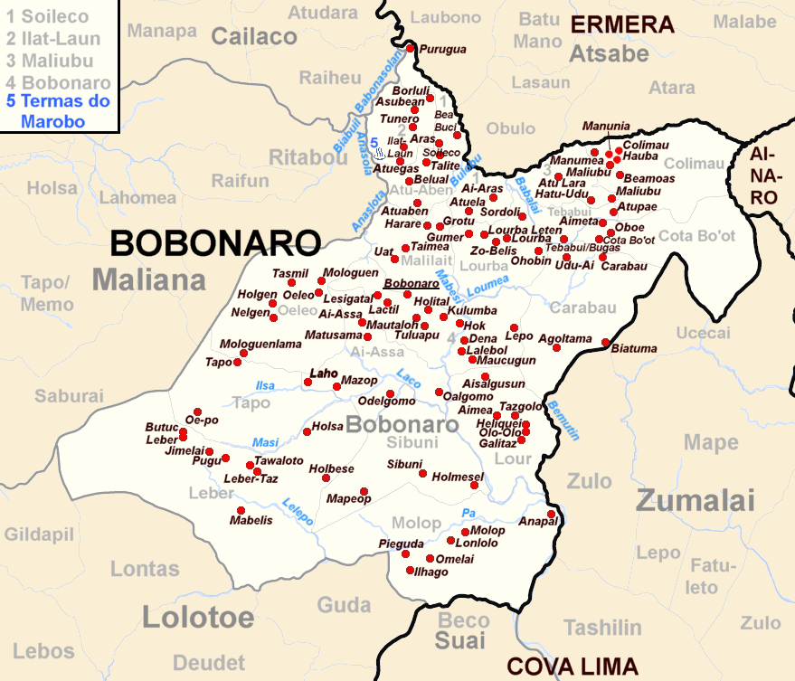 The administrative post of Bobonaro, municipality Bobonaro, East Timor